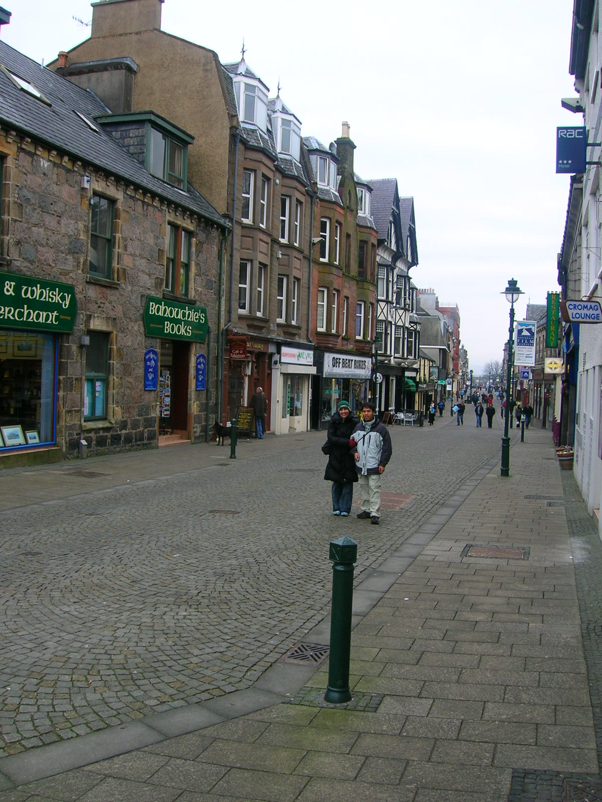 By Rotellini Davide.... Fort William ,Scotland... city centre